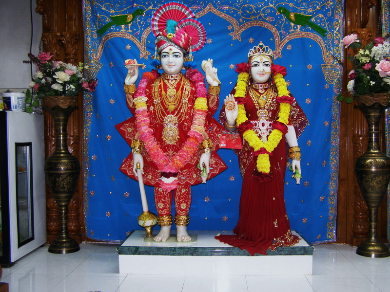 Images at Downey Swaminarayan Temple